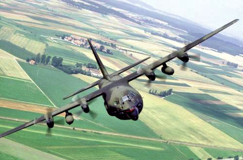 An air-to-air front view of an MC-130E Hercules Combat Talon aircraft of the 7th Special Operations Squadron (SOS) during a Fulton recovery mission. The 7th SOS conducts training for special air operations and related activities. The unit also trains with Army Special Forces and Navy Sea-Air-Land (SEAL) team members for unconventional warfare operations.